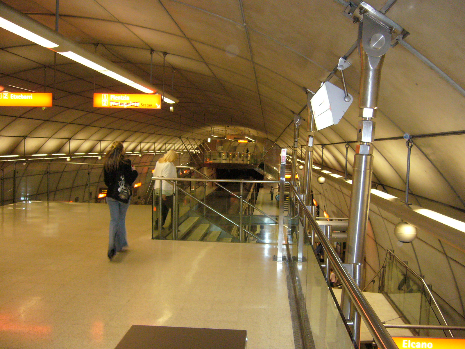 Metro Bilbao, station ticket line 23 nov 2006.